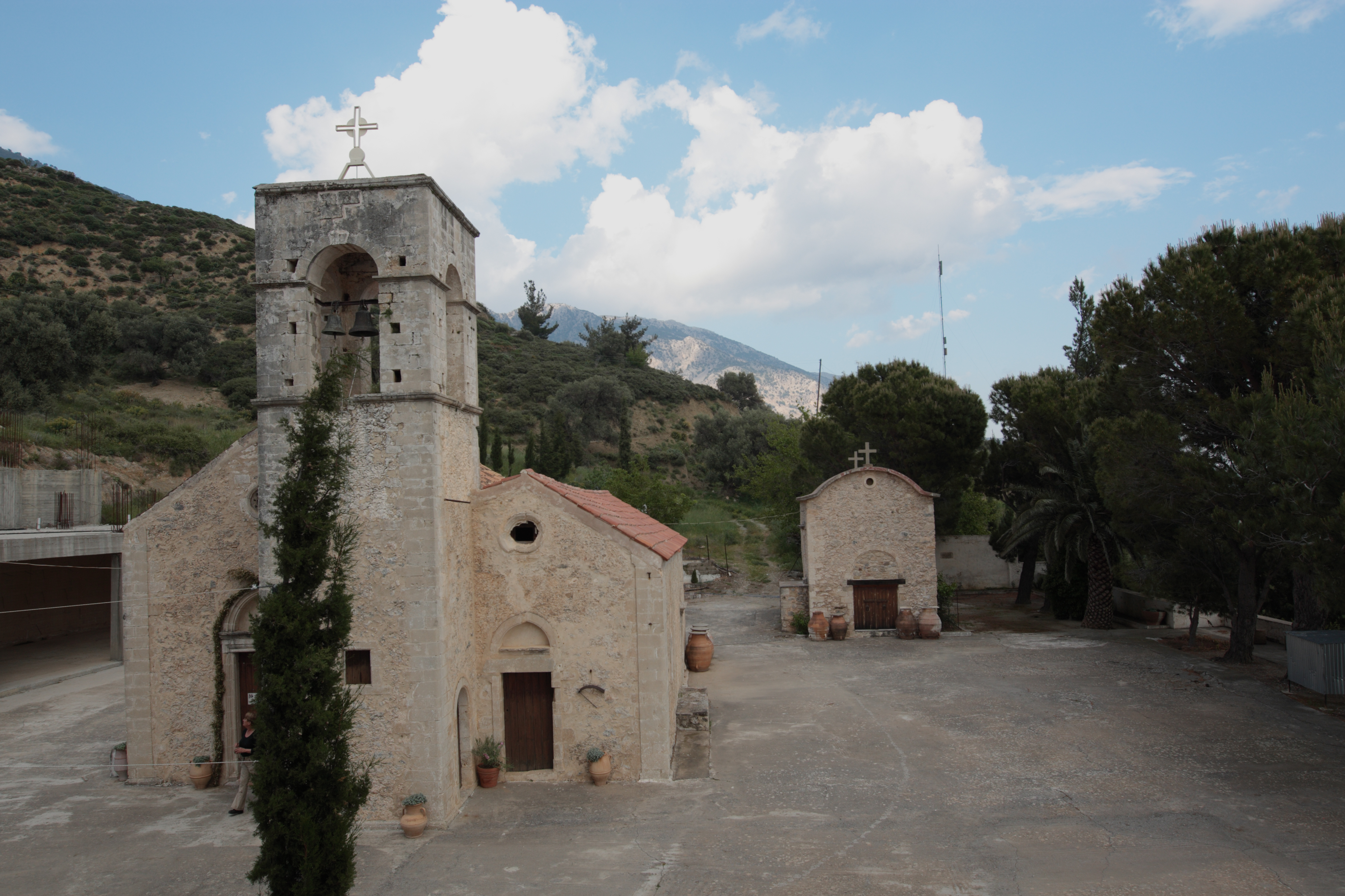 The Vrontisiou Monastery, 50 km away from Heraklion, lies on the south slope of the Psiloritis Mountain, a little to the north-west of the village of Zaros (Crete)